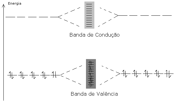 Energy diagram of solids from atomic orbitals of individual atoms. Valence Band and Conduction Band.